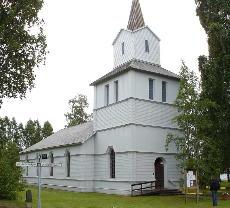 The old church in Hörnefors, Västerbotten county, Sweden. The church belonged to the ironworks.